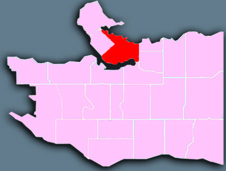 Downtown neighbourhood of Vancouver.